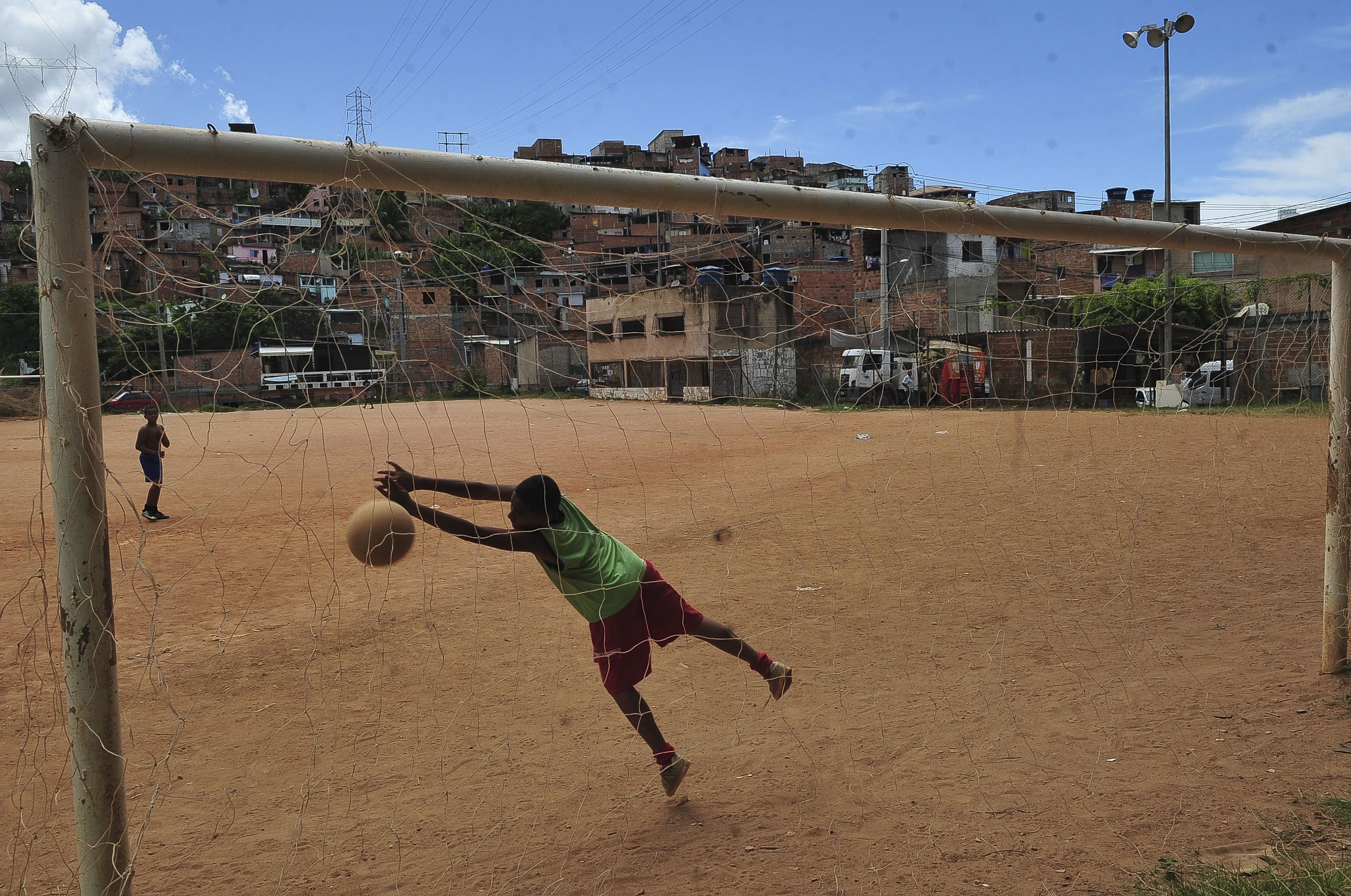 CCBY3.0 license